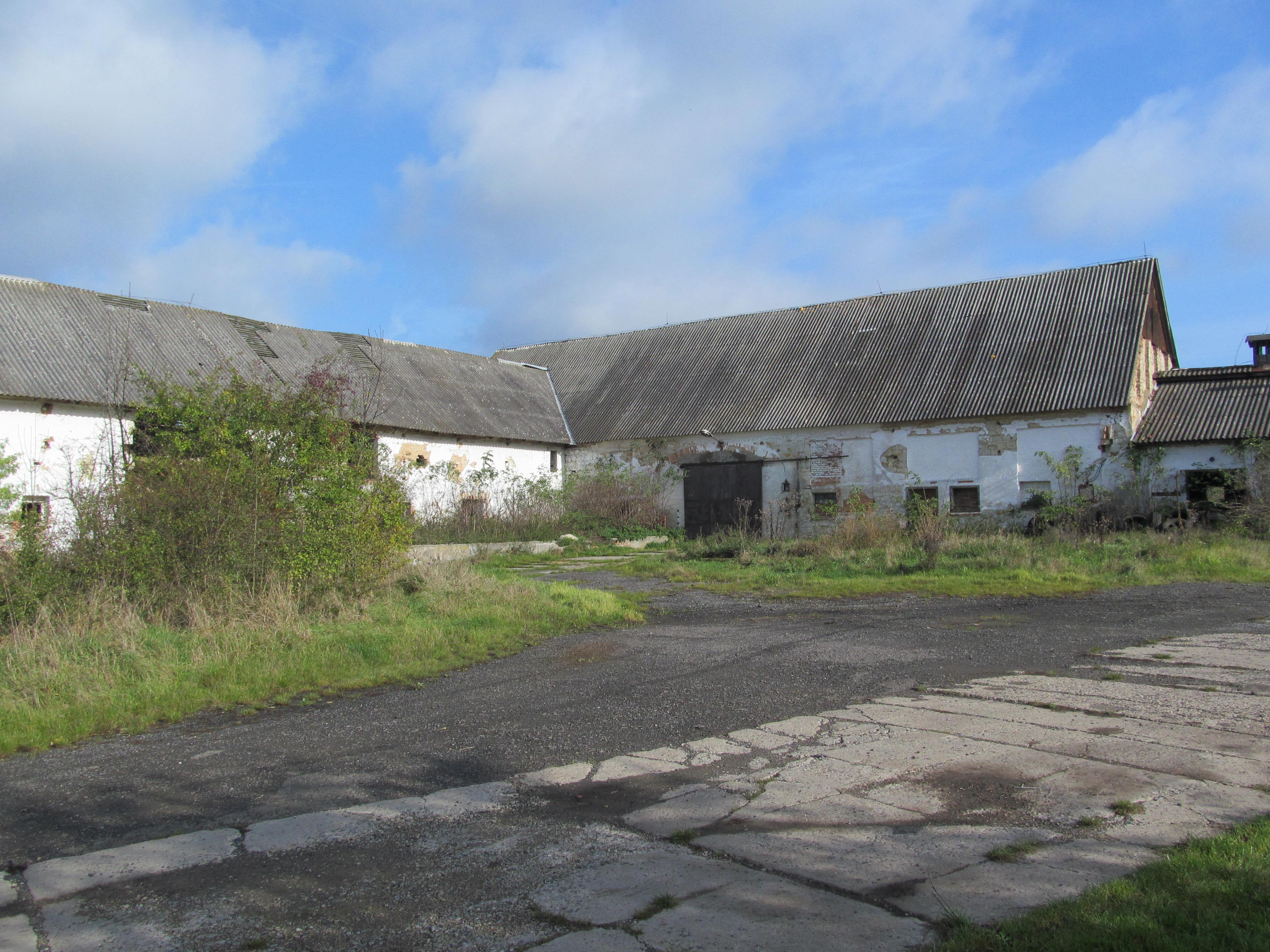 Former farm in Neprobylice